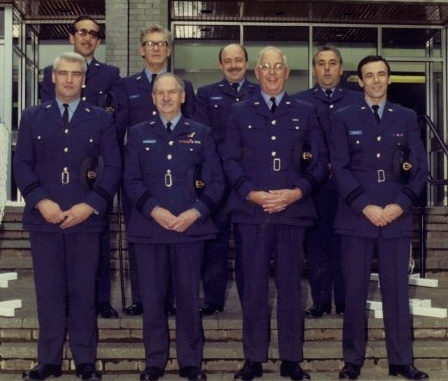 ROC Summer Camp Staff 1986